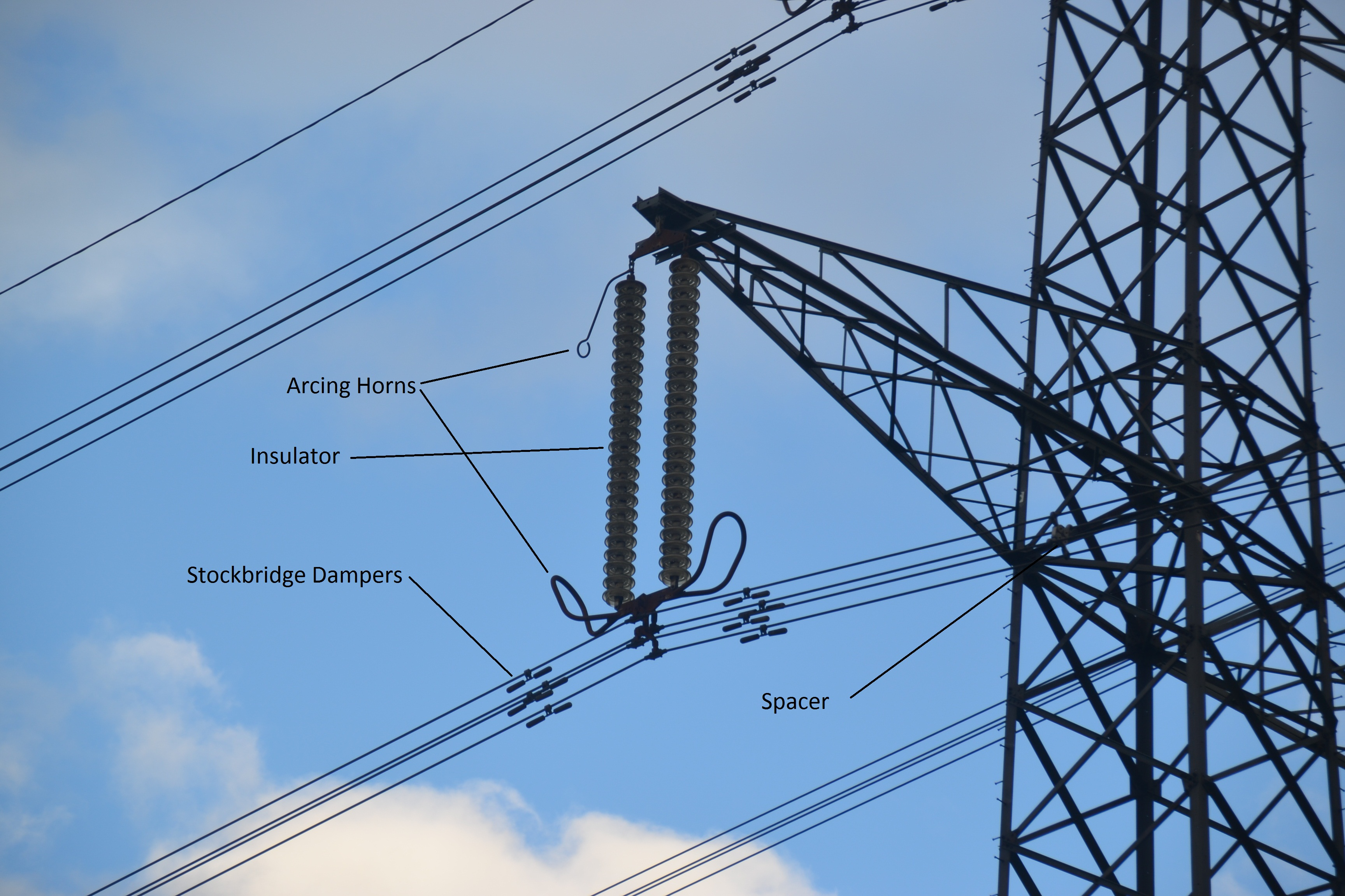 Suspension pylon, double insulator and wires (four-conductor bundles in this case) showing the various parts annotated.